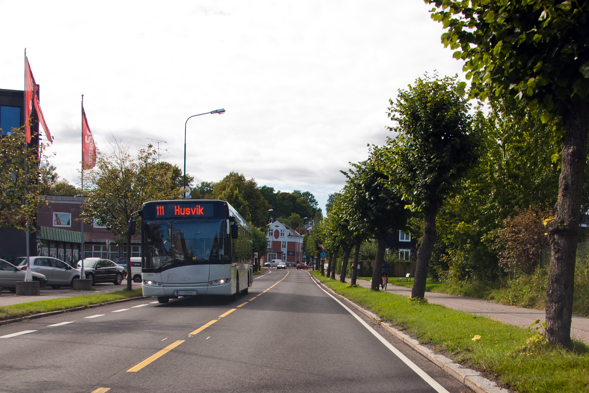 County road 469 "Slagenveien" in Tønsberg, Vestfold county, Norway